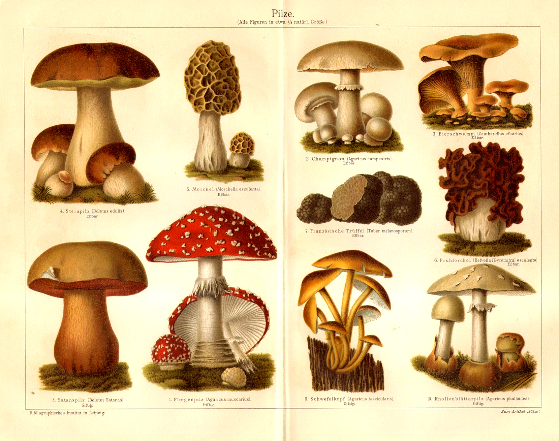 1909 Original Antique Chromolithograph of Mushrooms